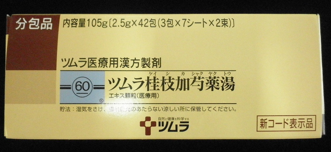 Chinese medicine whose name is keishikasyakuyakutou